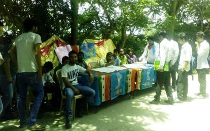 this photograph is taken from Prakash Dadwal' flickr account.